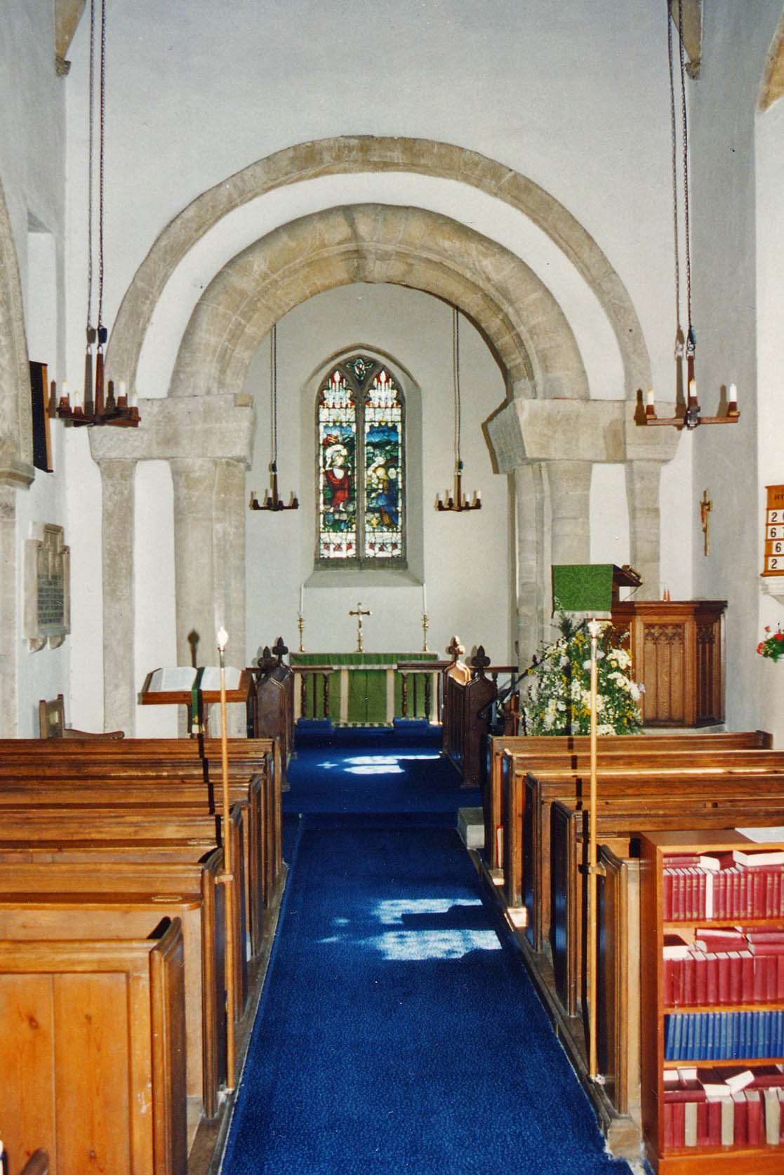 Inside the nave of All Saints' parish church, Wittering, Soke of Peterborough, looking east to the Saxon chancel arch